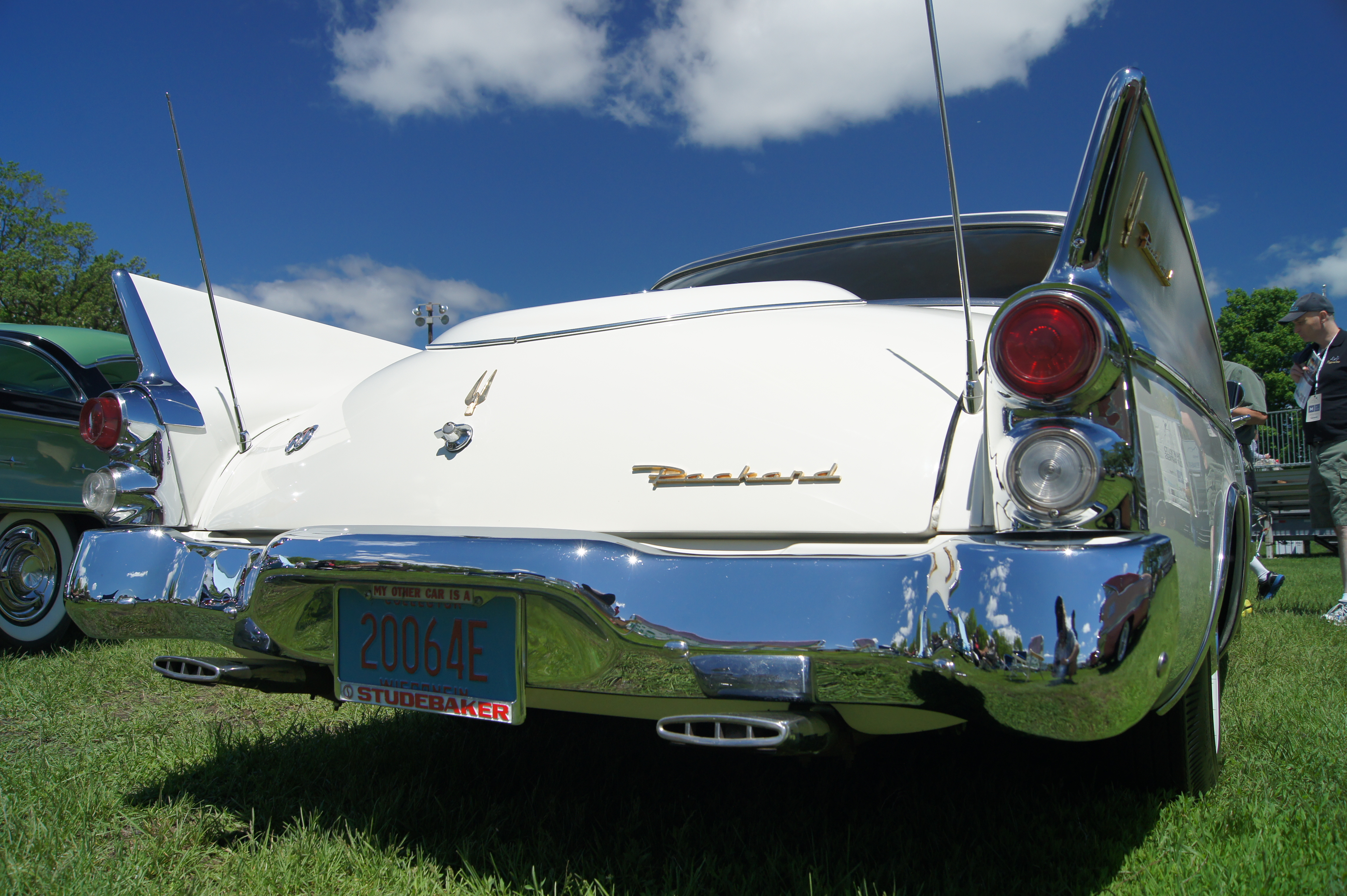 Inaugural 10,000 Lakes Concours d'Elegance to Benefit Courage Center Foundation June 2, 2013 Excelsior Commons Excelsior Minnesota Thousands of car pictures at the link below: Inaugural 10,000 Lakes Concours d'Elegance to Benefit Courage Center Foundation June 2, 2013 Excelsior Commons Excelsior Minnesota Thousands of car pictures at the link below